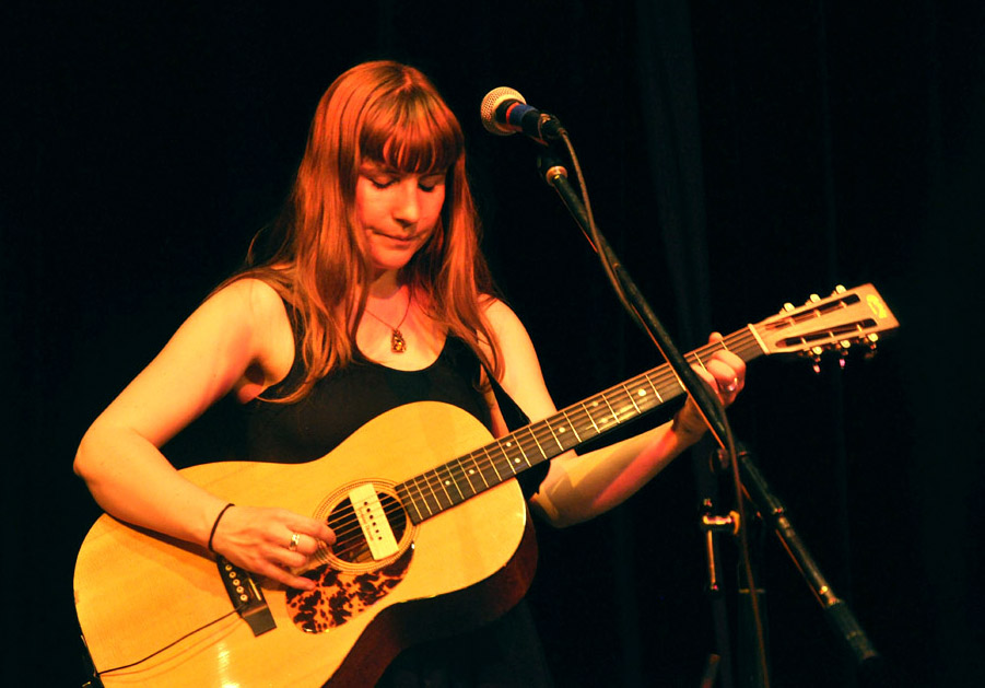 Emily Jane White in concert at the Laboratorium, Stuttgart, June 3 2011